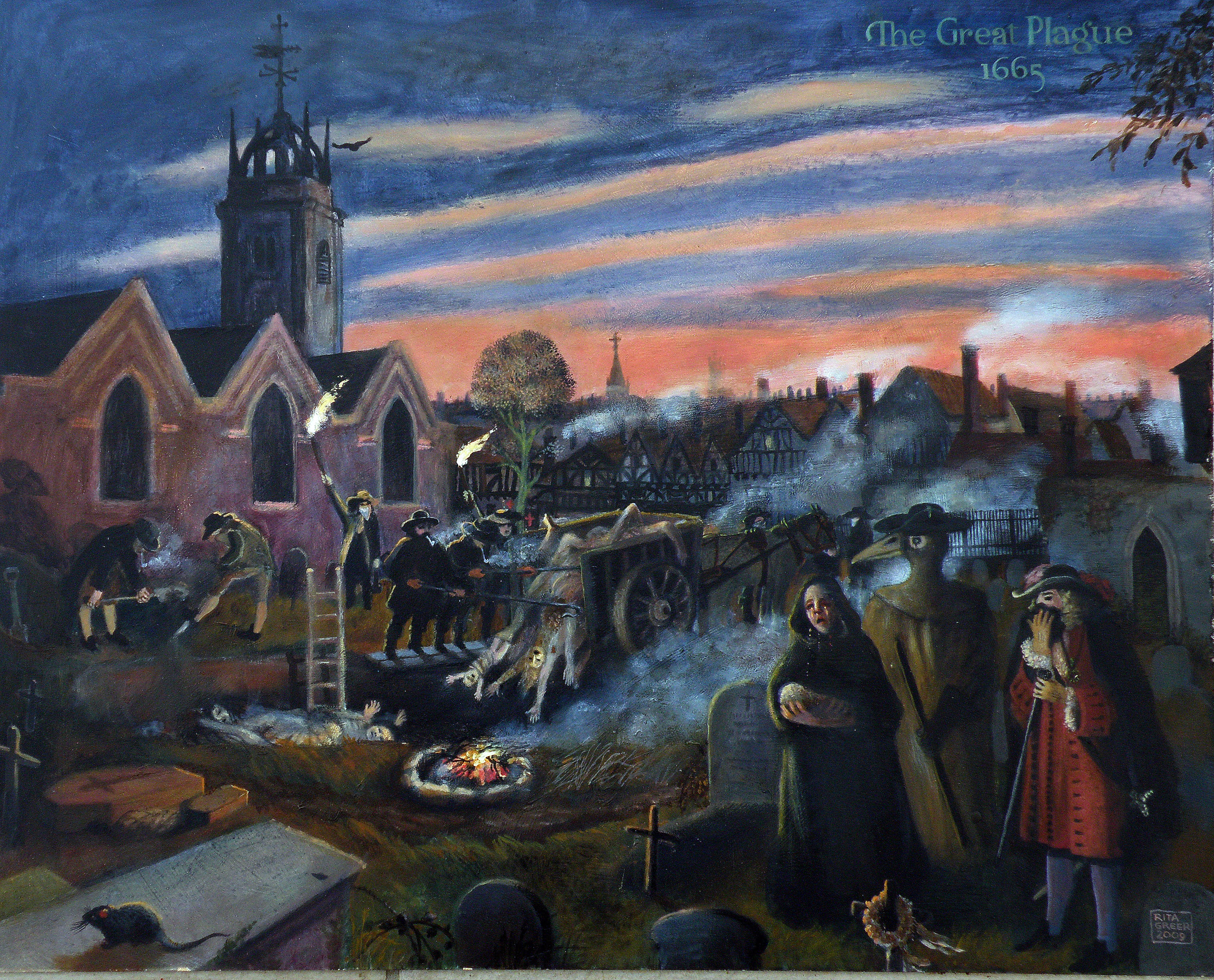 Like many who could afford to, Robert Hooke left London for six months during the worst of the bubonic plague. All cats and dogs were destroyed as a preventive measure. This allowed rats to flourish and spread the disease which was carried by their fleas. The image shows a scene of horror. After sunset carts were driven through the streets to collect the dead. They were taken to the nearest graveyard to be buried in plague pits. Fires burned to make smoke. Pipes of tobacco were smoked, posies of herbs worn and faces covered with masks. This was thought to be protection against contagion. London was overwhelmed with fear, terror and grief. It is thought that as many as 100,000 perished in London alone.